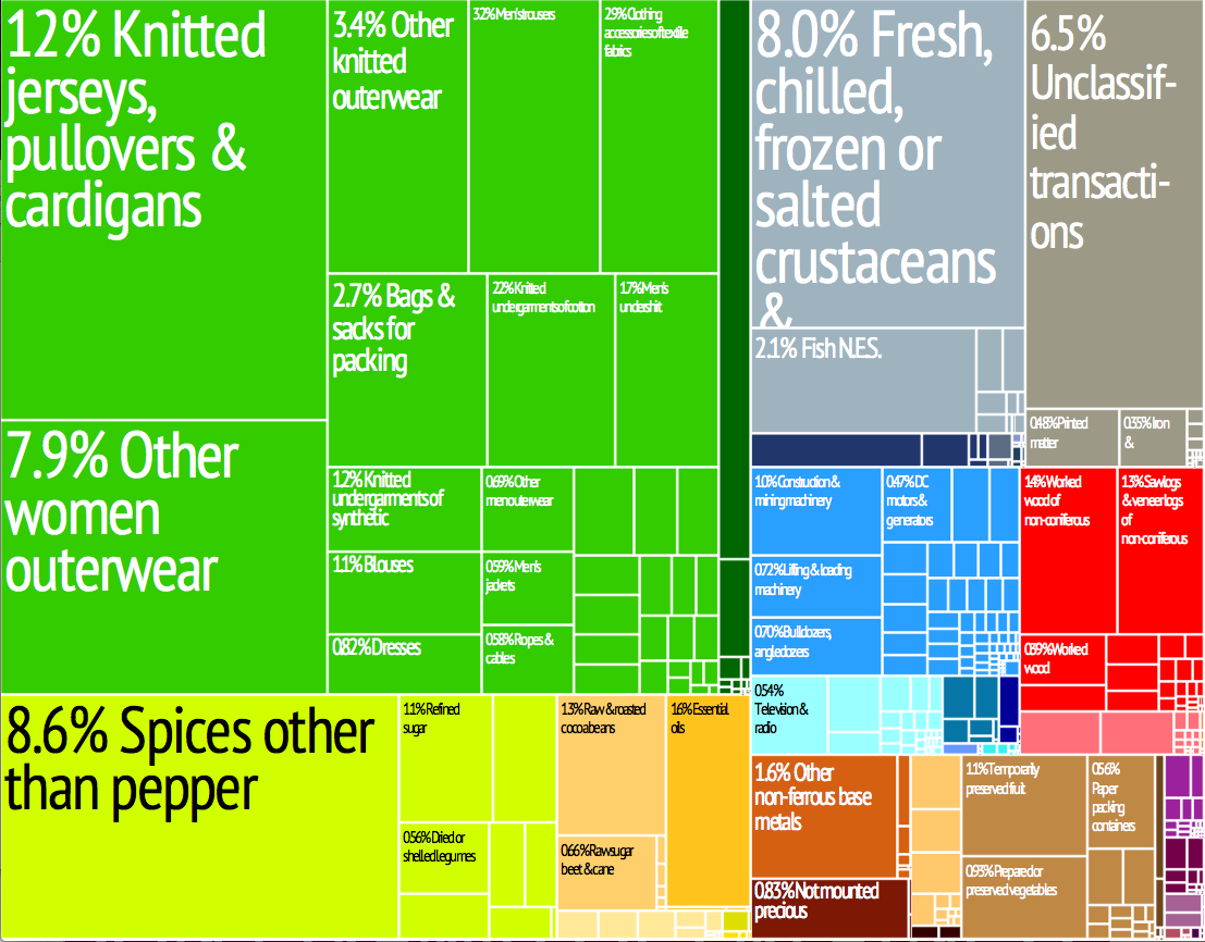 Export Trading Treemap. From MIT/Harvard Atlas of Economic Complexity